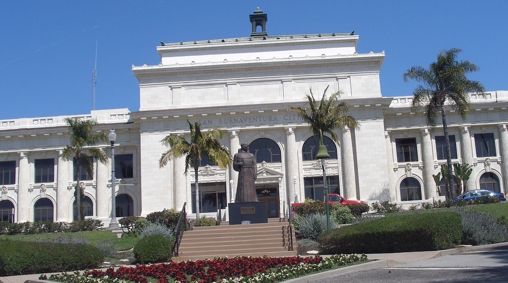 The City Hall of the City of San Buenaventura (better known as Ventura).